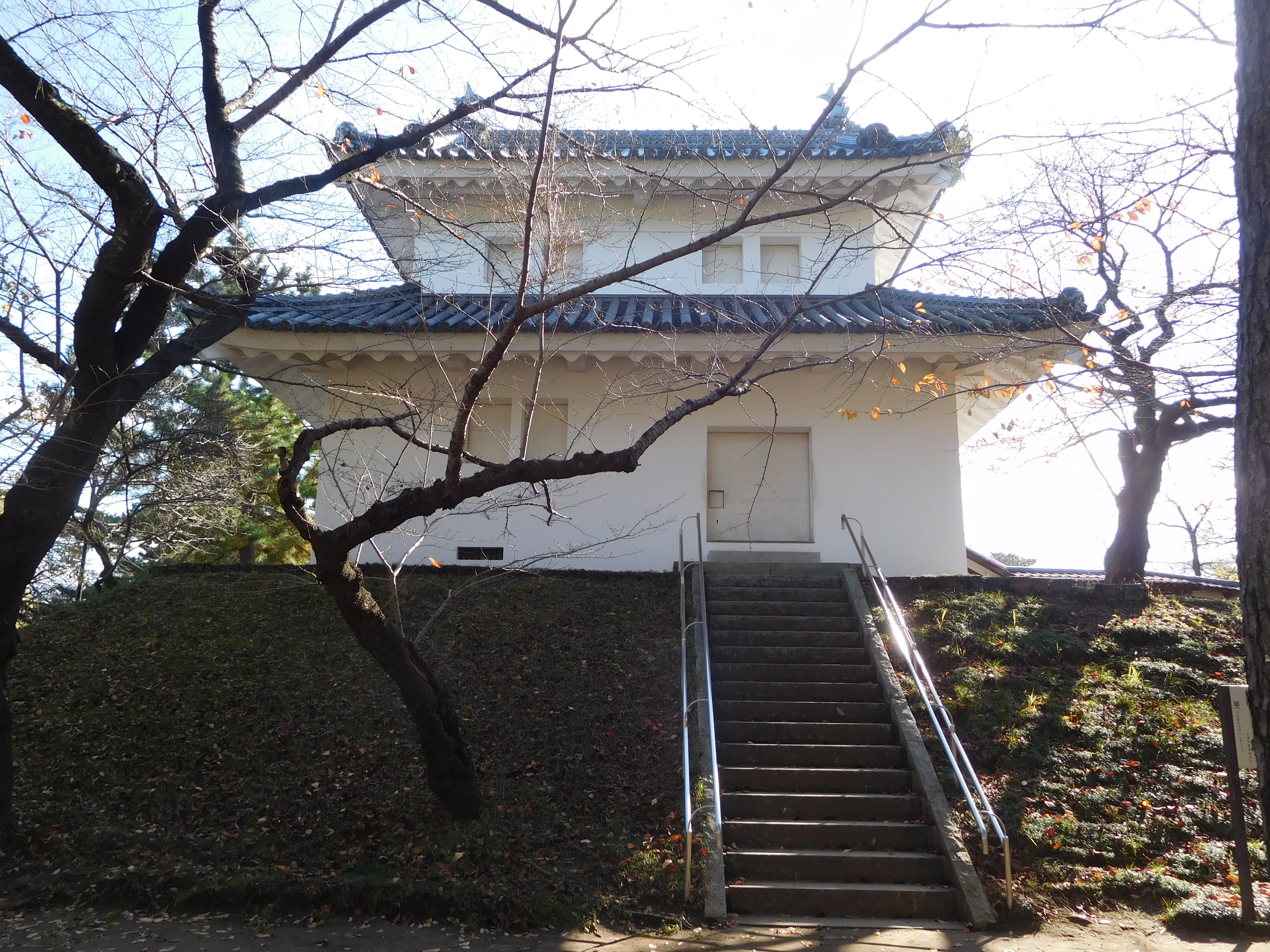 It is the east turret of Tsuchiura castle in Tsuchiura, Ibaraki, Japan. This building is a part of Tsuchiura city museum. It was rebuilt in 1998. You can enter this turret.